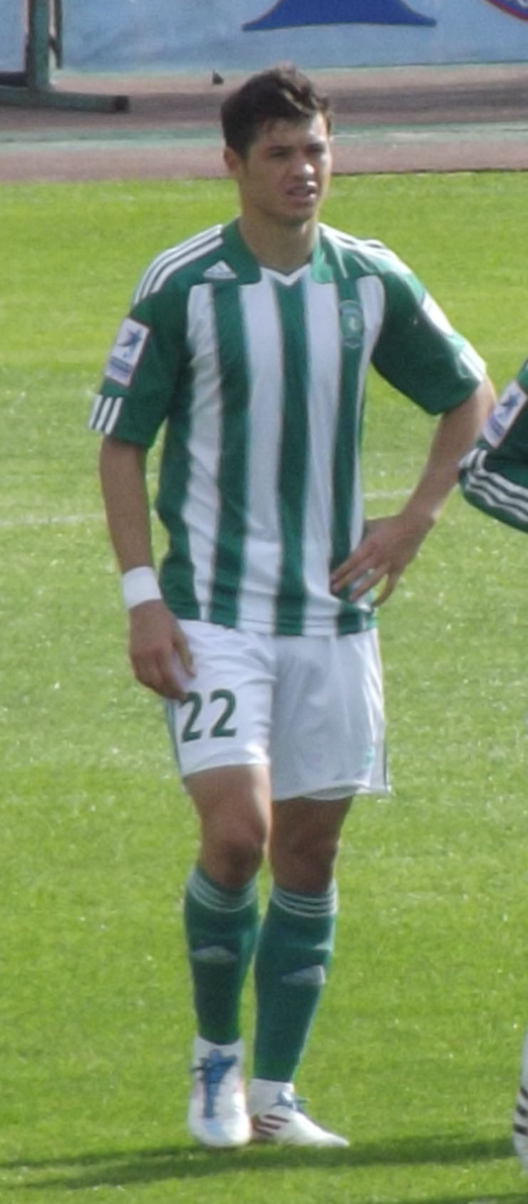 Ovidiu Dănănae with FC Tom Tomsk